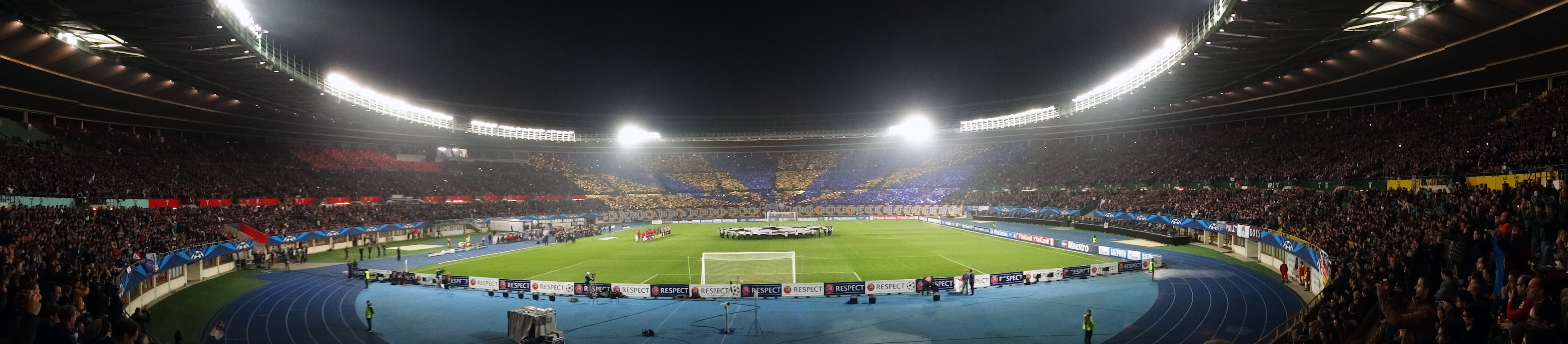 22-Okt-2013 FK Austria Wien - Atletico Madrid 0:3 UEFA Champions League Ernst-Happel-Stadion, Wien